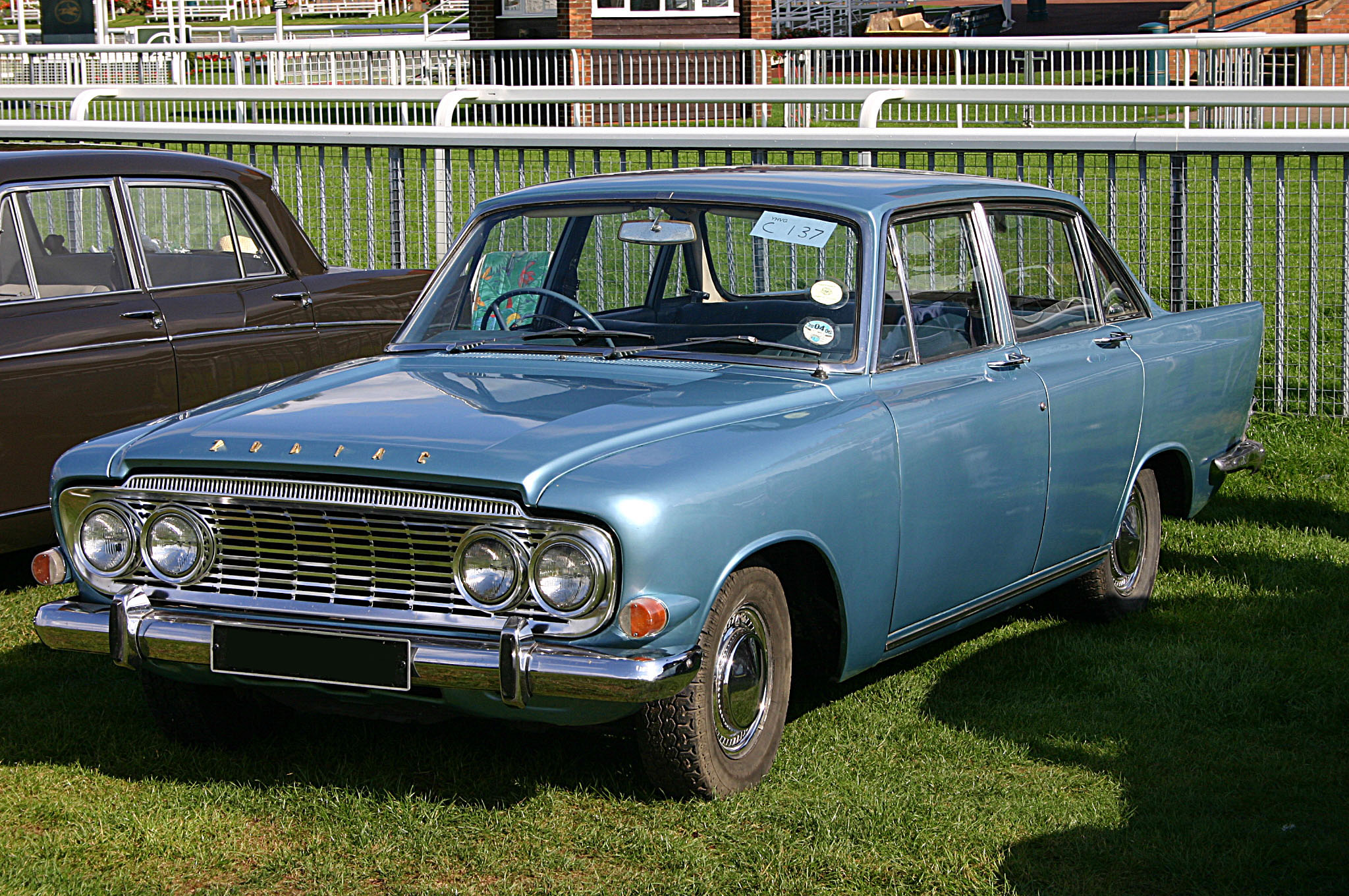 Ford Zodiac MkIII (213E) was introduced in 1962 and produced until 1966. Roy Brown's design for the huge body looked radically different from the outgoing MkII, but in fact underneath it differed little.